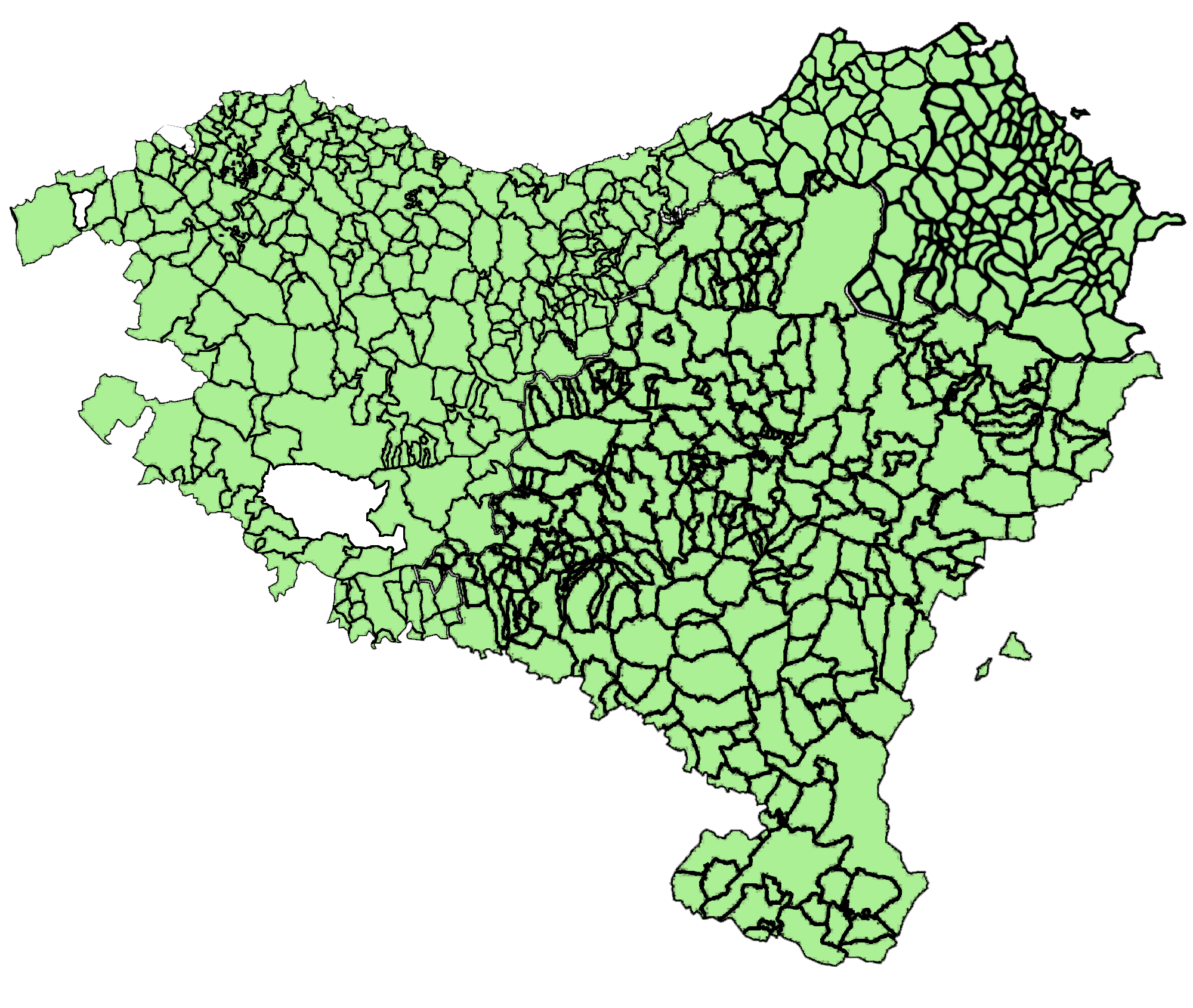 Map of municipalities in Euskal Herria.